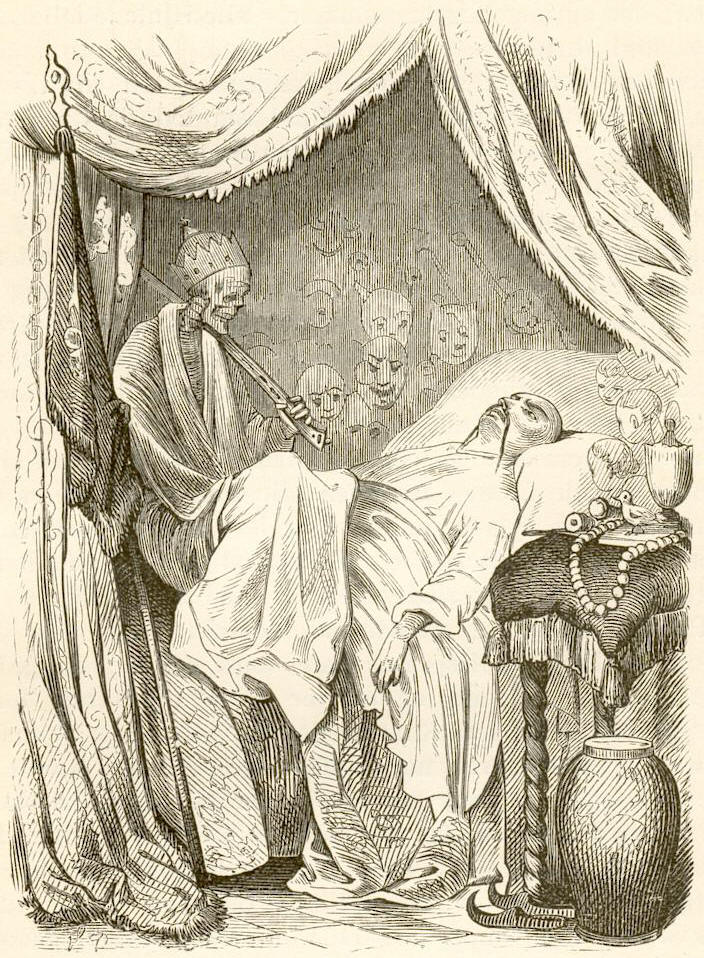 Pedersen illustration in public domain for Andersen's "Nightingale".